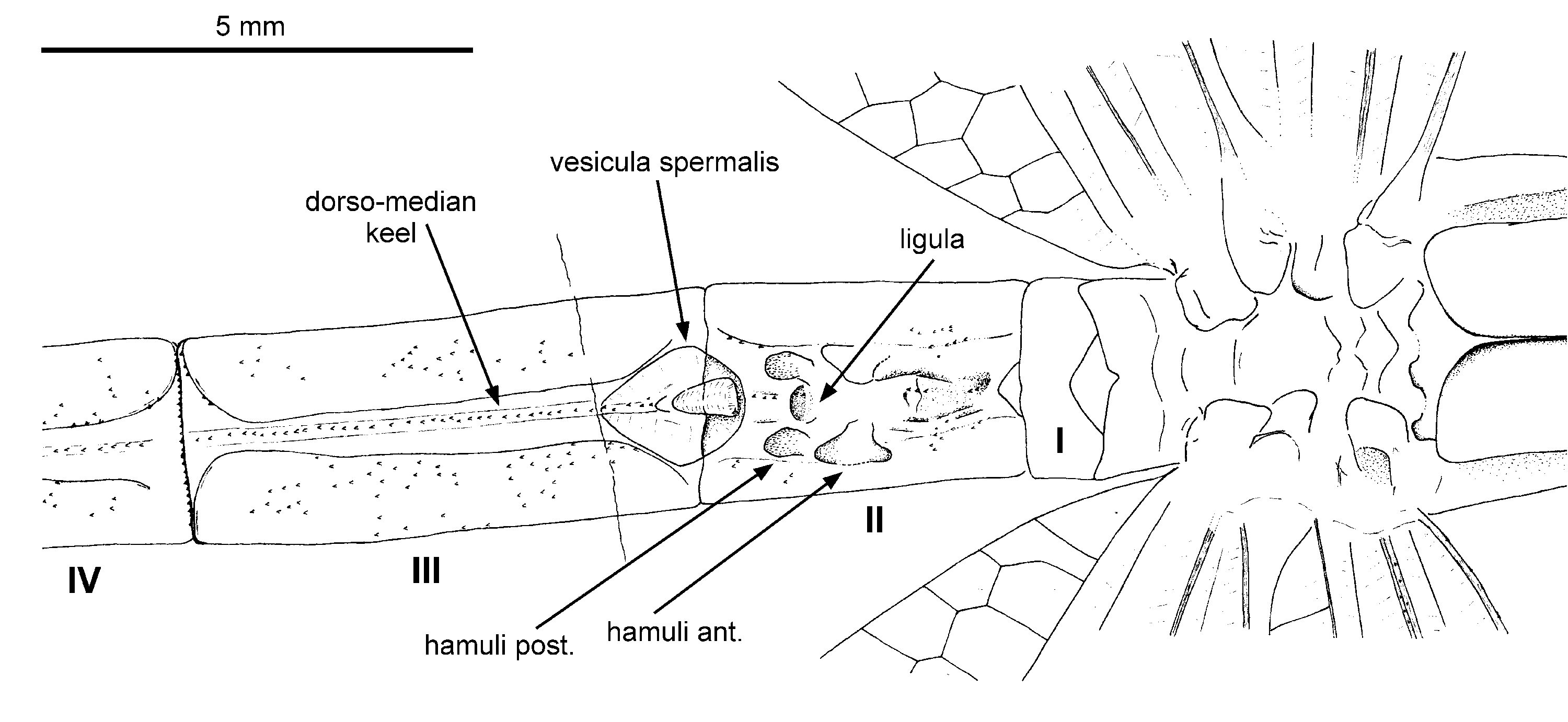 Tarsophlebia eximia (Odonata: Tarsophlebioptera: Tarsophlebiidae), Upper Jurassic, Solnhofen Plattenkalk, male specimen SOS 1720 at Jura Museum Eichstätt, secondary genital apparatus, scale 5 mm, drawing by G. Bechly